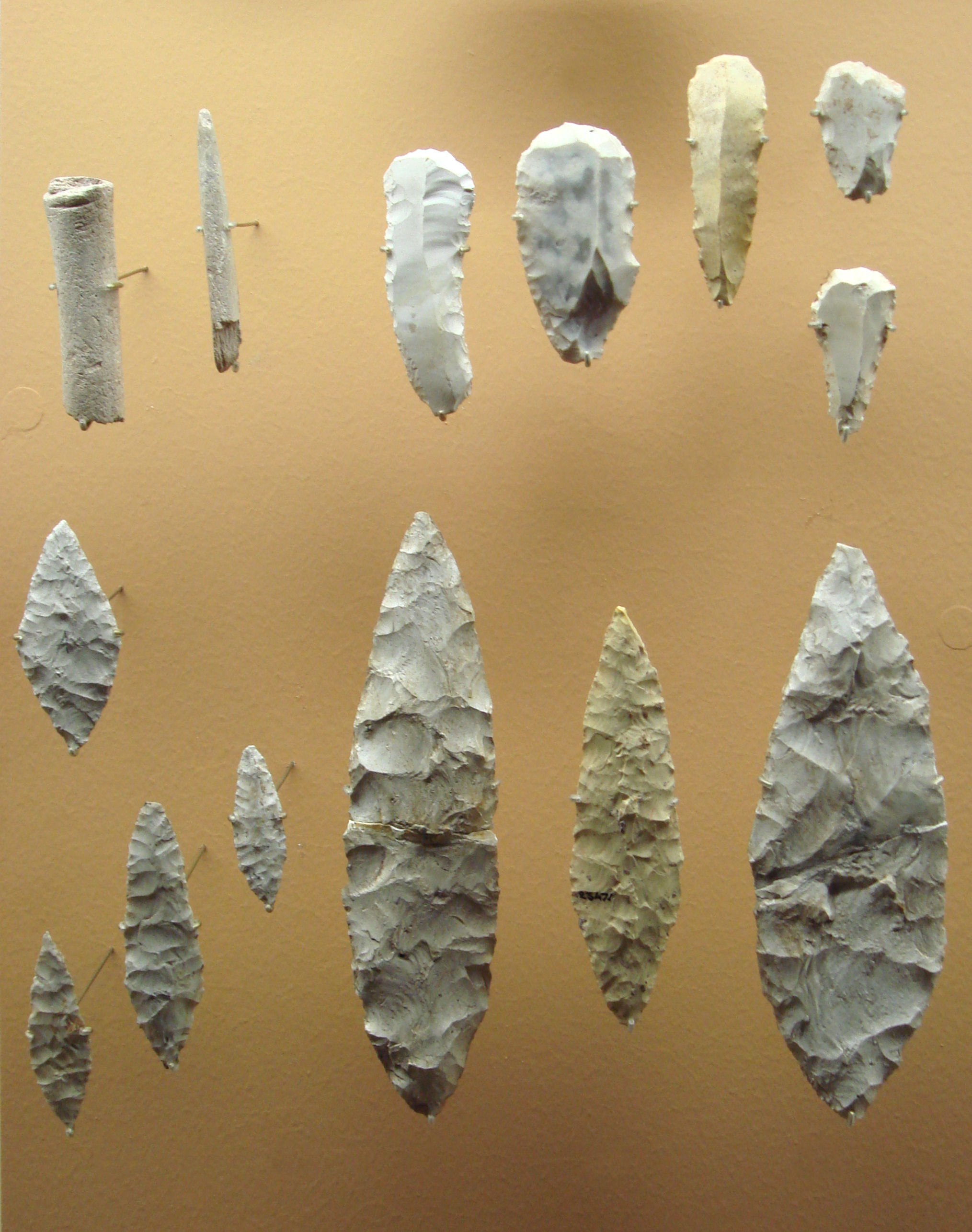 Solutrean_tools_22000_17000_Crot_du_Charnier_Solutre_Pouilly_Saone_et_Loire_France.